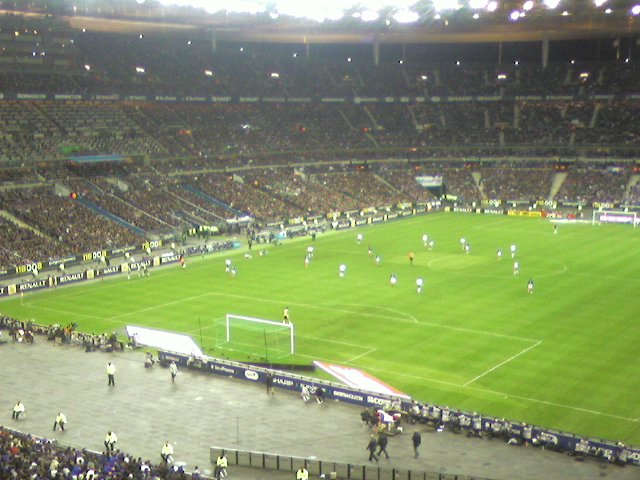 France v Ireland. Stade de France 18/11/09